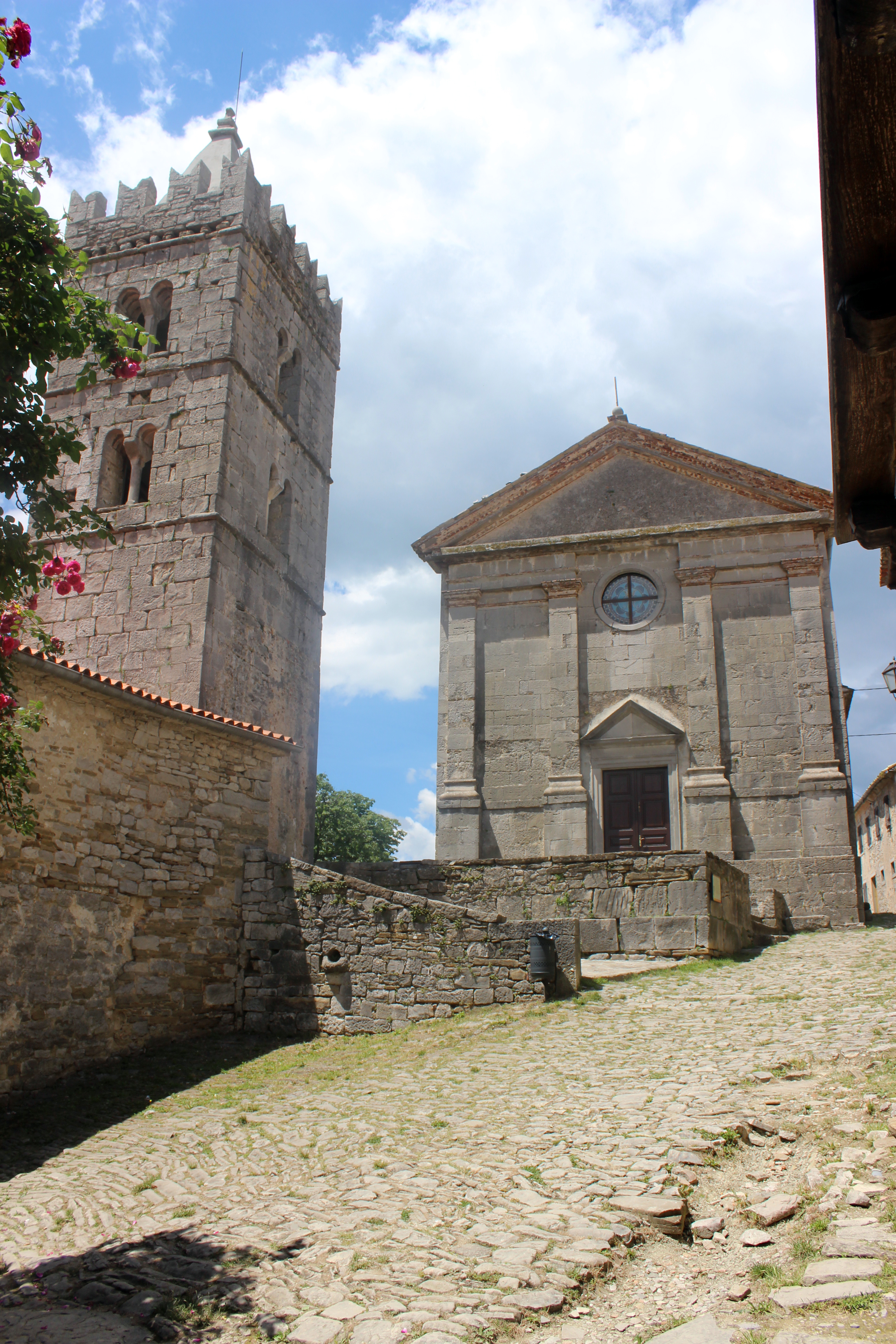 Paris church of the Assumption of Mary (Župna crkva Uznesenja Blažene Djevice Marije), with the bell tower, in Hum, Croatia